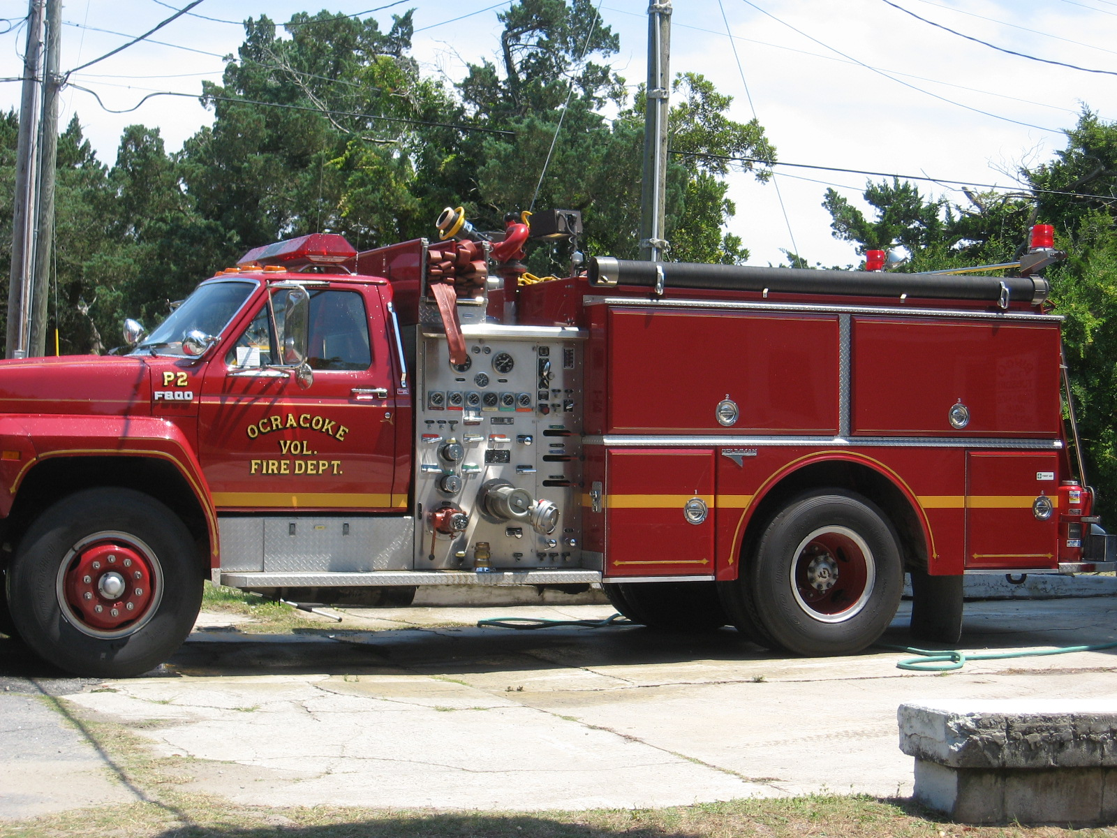 Fire Department